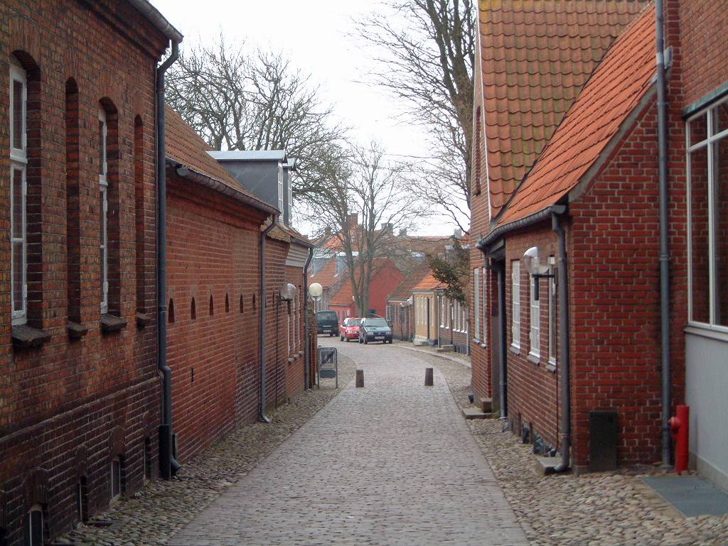 Typical street in Ringkøbing, Denmark.